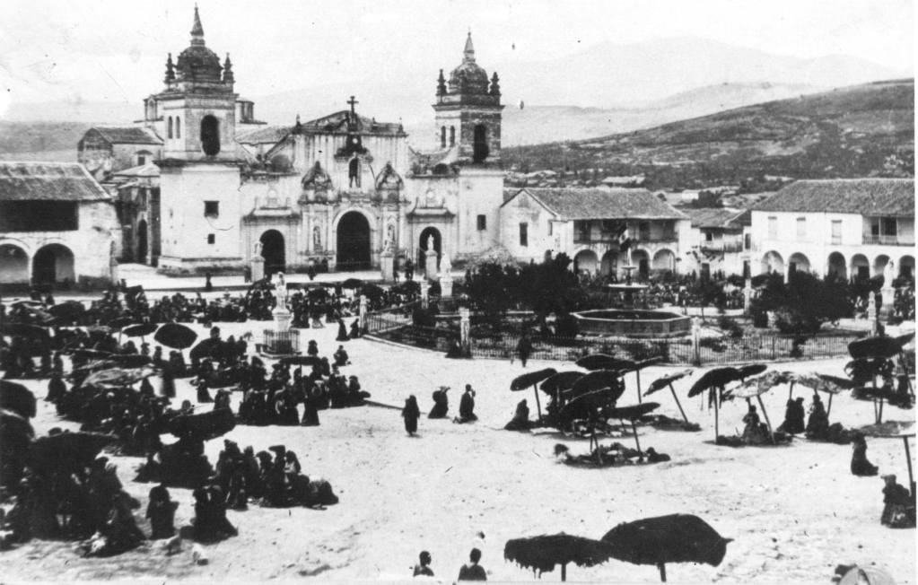 Lhouredelangelus